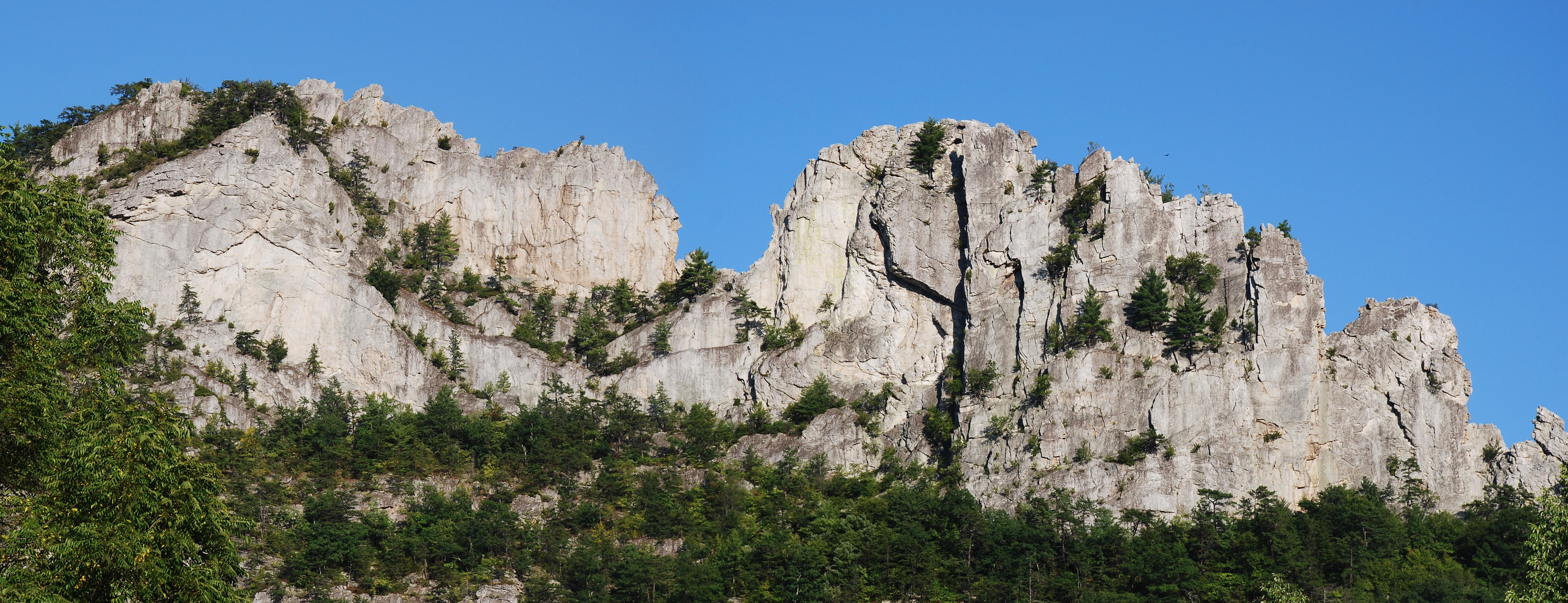 Seneca Rocks in Monongahela National Forest, West Virginia, USA